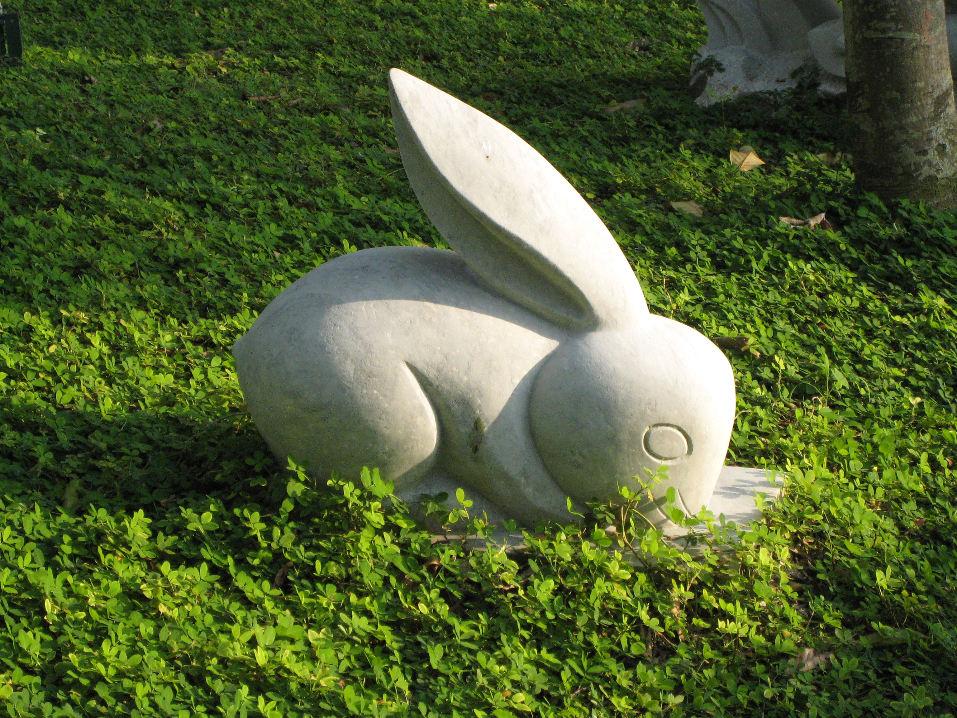 The Rabbit statue is one of the 12 Chinese zodiac portrayed in the Kowloon Walled City Park in Kowloon City, Hong Kong.